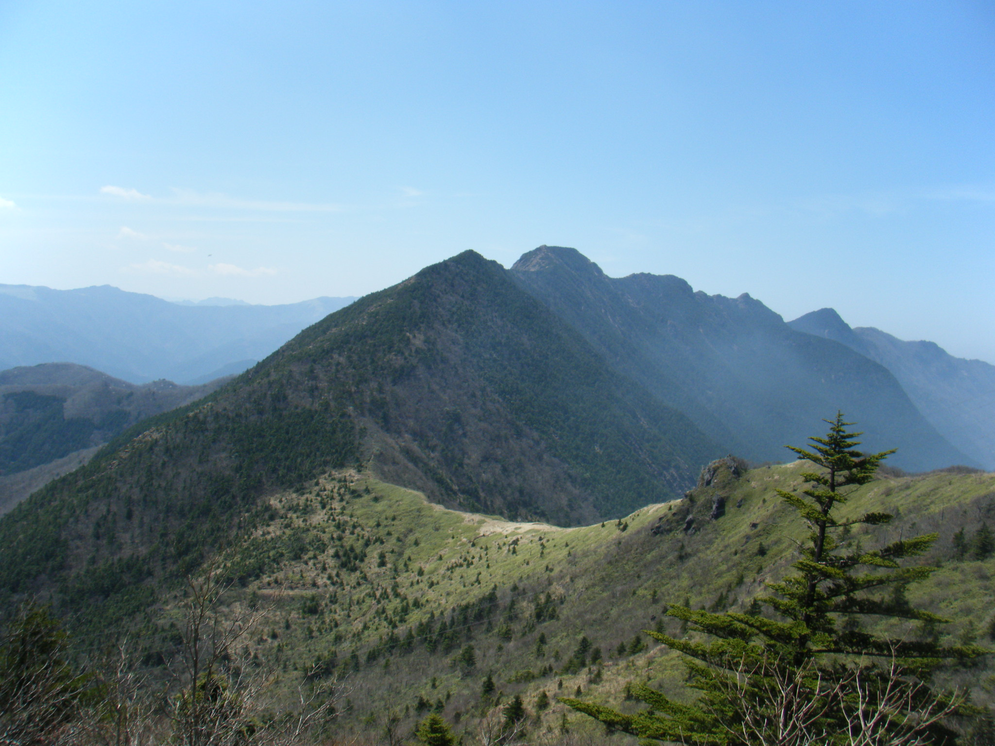 Mount Higashiakaishi (Higashiakaishi-yama) as seen from the east by north in Shikoku, Japan.